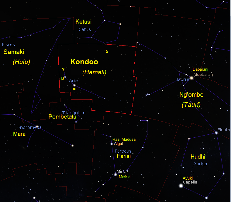 Aries constellation as seen from Tanzania, sw-en labeled Kiswahili: Kundinyota ya Hamali jinsi inavyoonekana kutoka Dar es Salaam, majina kwa ing.-swa.